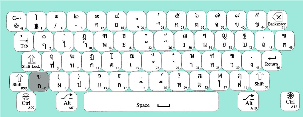 Figure 2 from the Thai Industrial Standard 820-2535, showing the character positions on the Kedmanee keyboard layout